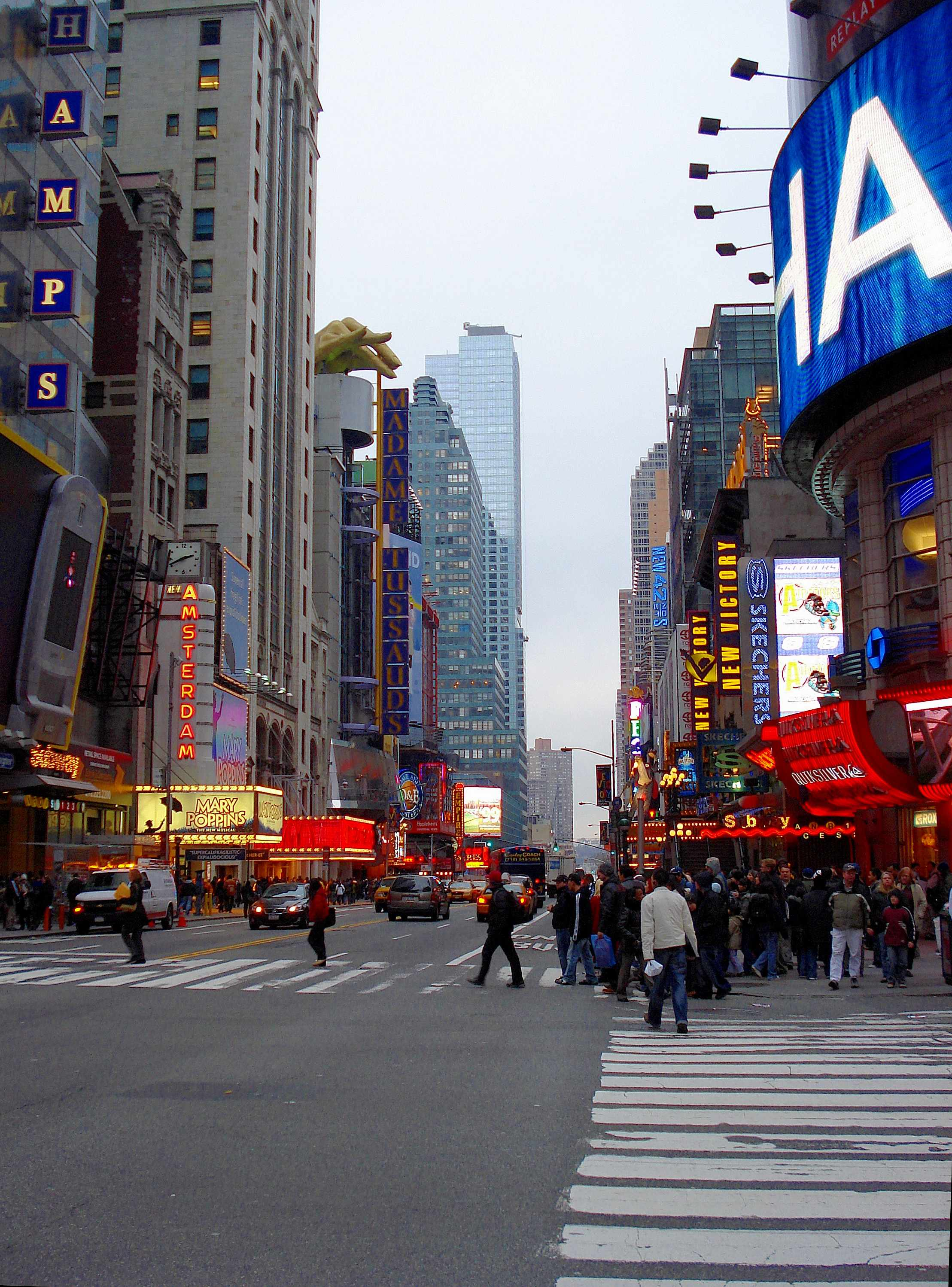 Western part of 42nd Street, Manhattan, New York City